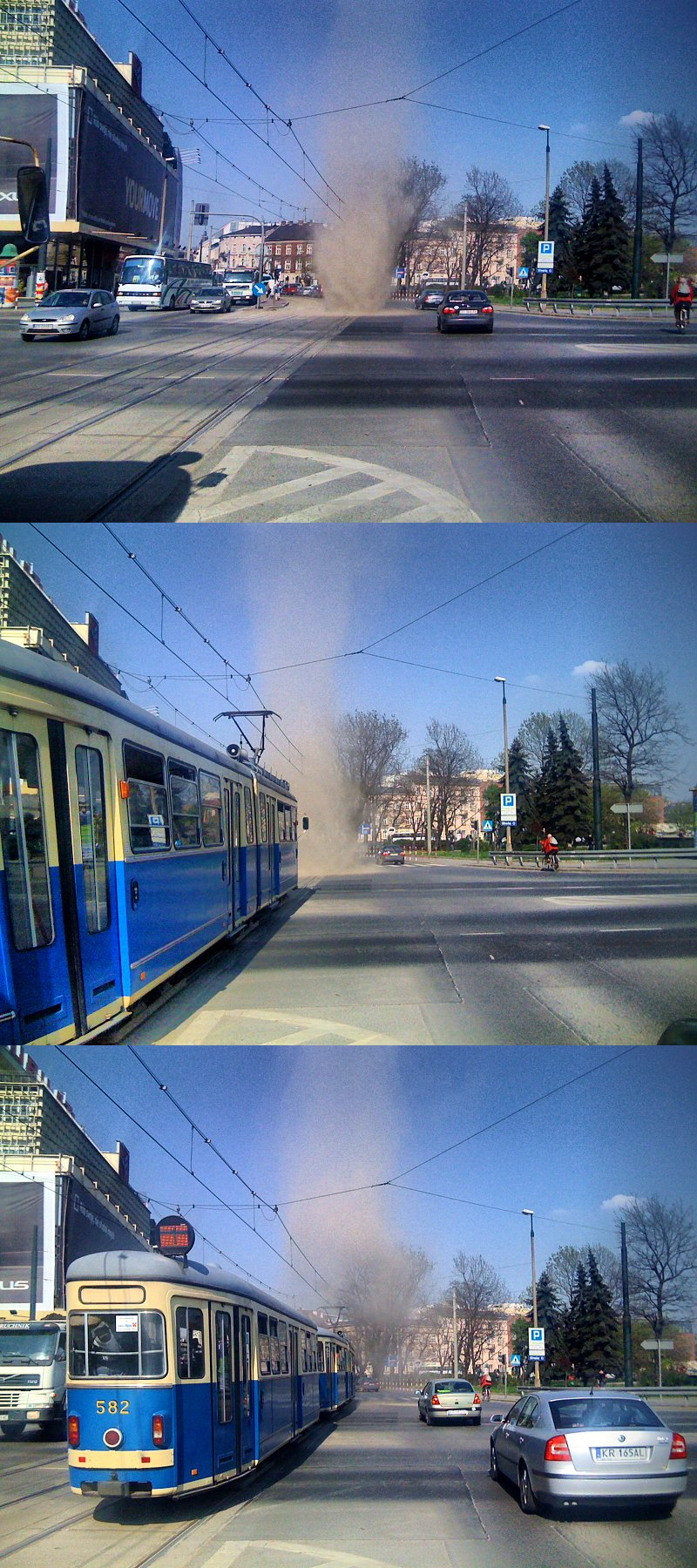 A series of photos of dust devil in Kraków, Poland. Taken 25-04-2008 at approx. 15:10.